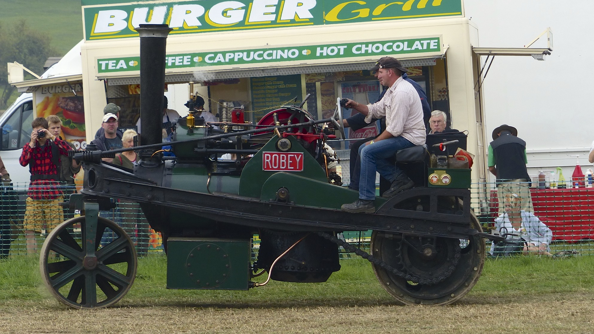 The biggest steam fair in the world covering over 600 acres. A beautiful hot sunny day today meant a bumper crowd ( for midweek) If you are thinking of going then go before the weekend when it will be seriously packed! A not-to-be-missed event with far more than just steam. country crafts, food, vintage and veteran vehicles of all sorts, a huge funfair, night time dancing and concerts.